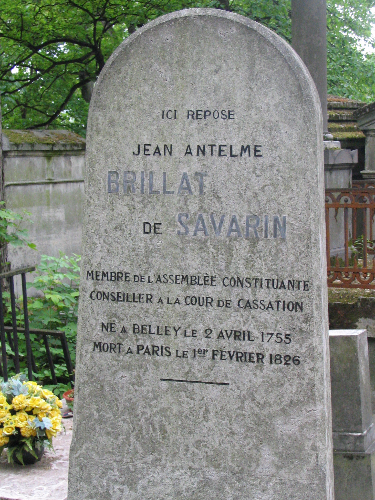 Now best known for his saying "Tell me what you eat and I'll tell you who you are" which opens every episode of Iron Chef.